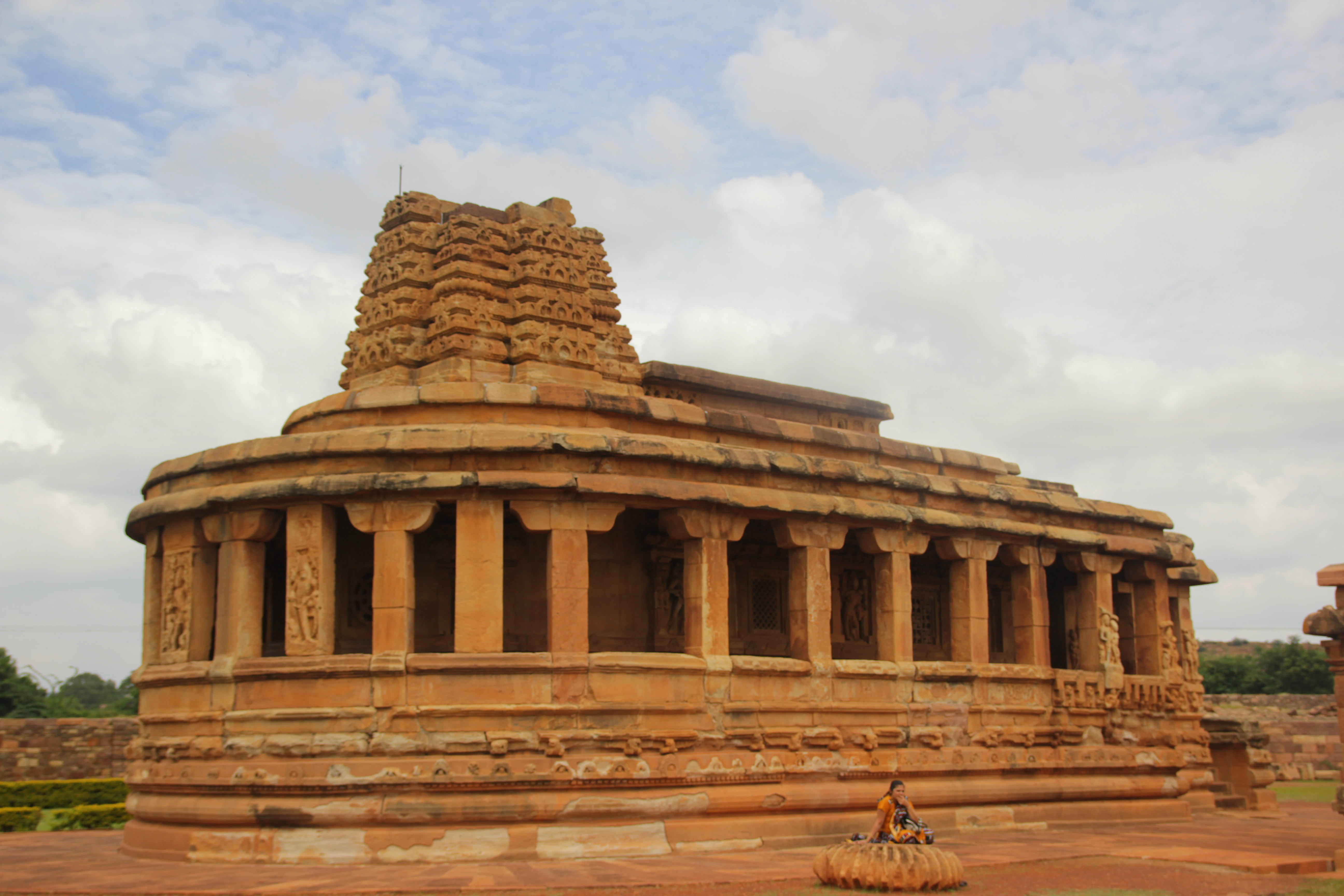 Ambigergudi or the Durga Temple, Aihole; a panaromic view